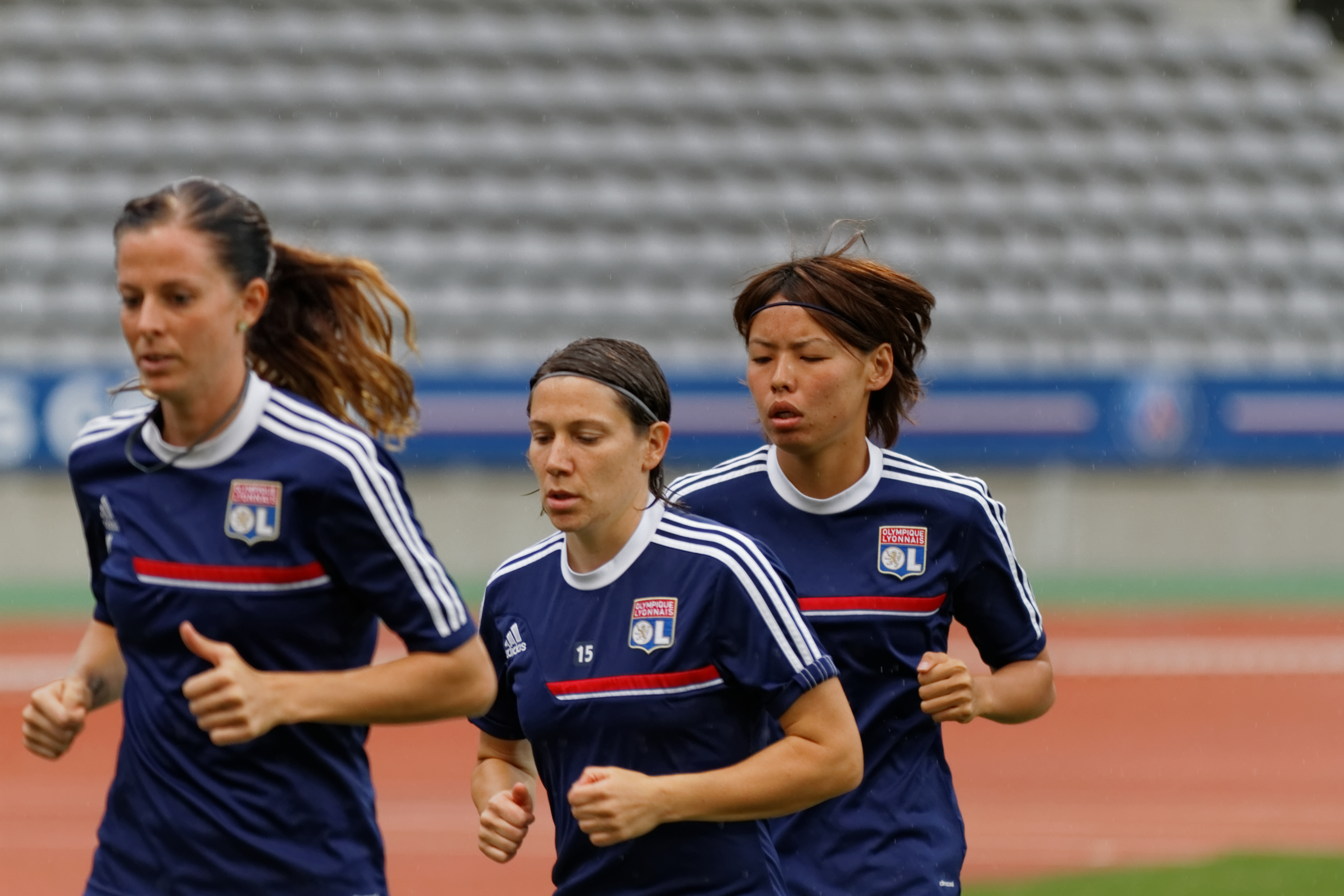 PSG-Lyon, September 29th, 2013. Lotta Schelin, Élise Bussaglia et Saki Kumagai.